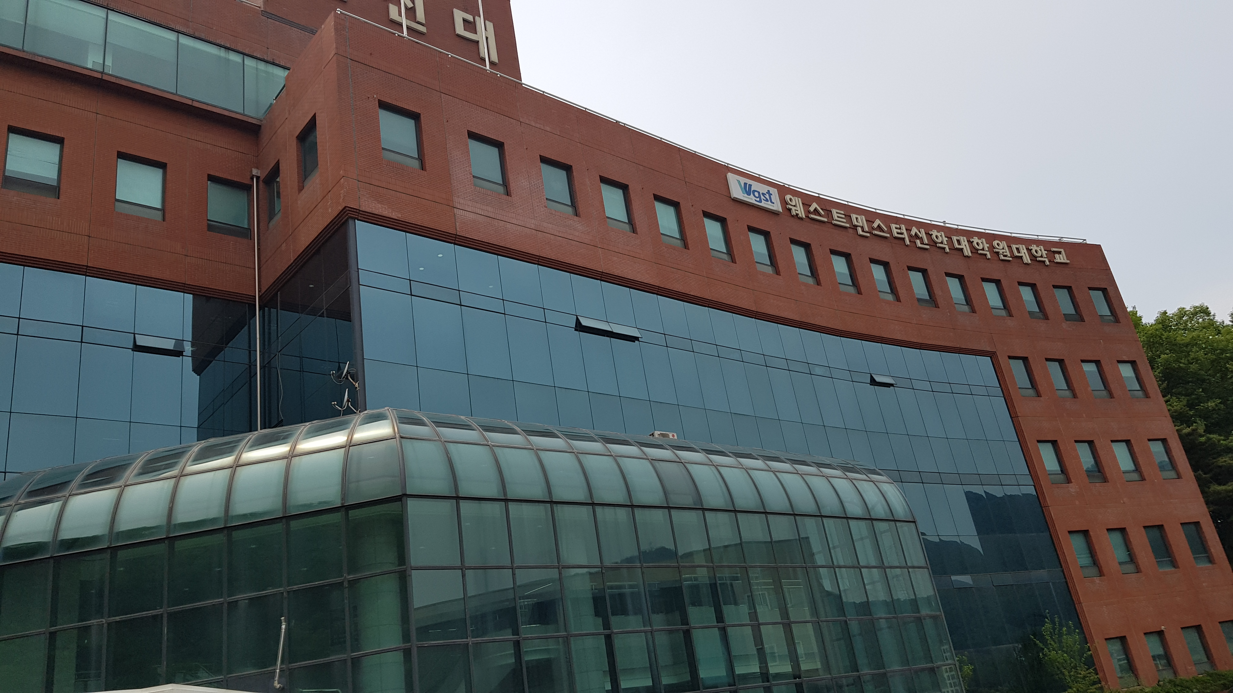 Westminster Graduate School of Theology